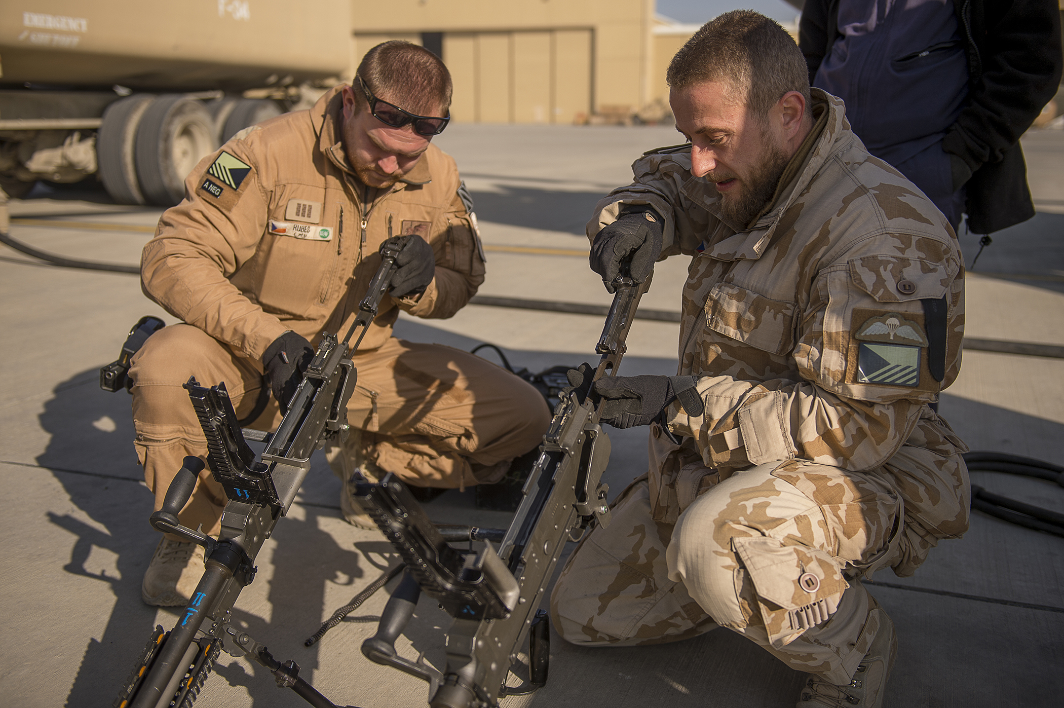 Czech Air Force Warrant Officers Marcel Lichy and Milan Rubes, door gunners, complete pre-flight checks on an M-240 weapon before a mission on an Afghan Air Force Mil Mi-17 Helicopter from Kabul, Afghanistan, International Airport, Dec. 1, 2012. The flight familiarized the newly arrived Czech aircrew with the Kabul area. (U.S. Air Force photo/Tech. Sgt. Dennis J. Henry Jr.)